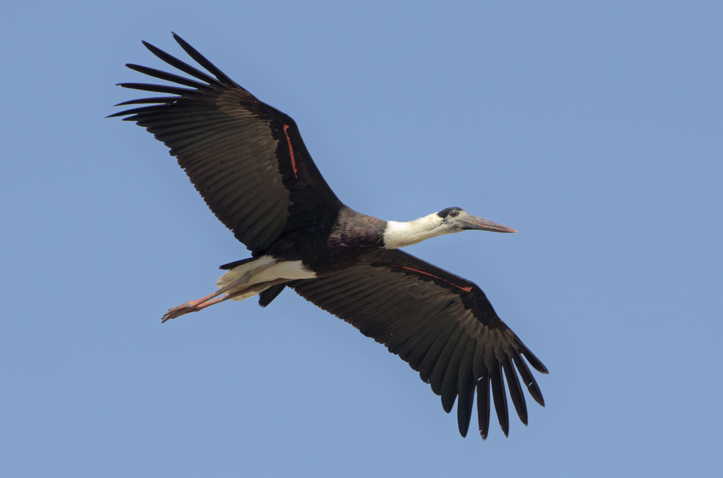 A Woolly-necked Stork Ciconia episcopus flying in Nanded, Maharashtra, India.